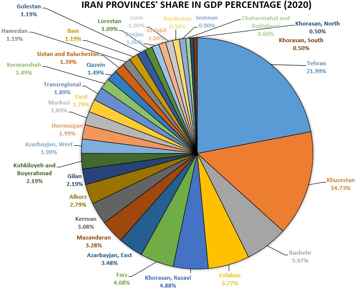 Iran's provinces contribution to GDP (2004/05) - Excluding special revenues and expenditures.